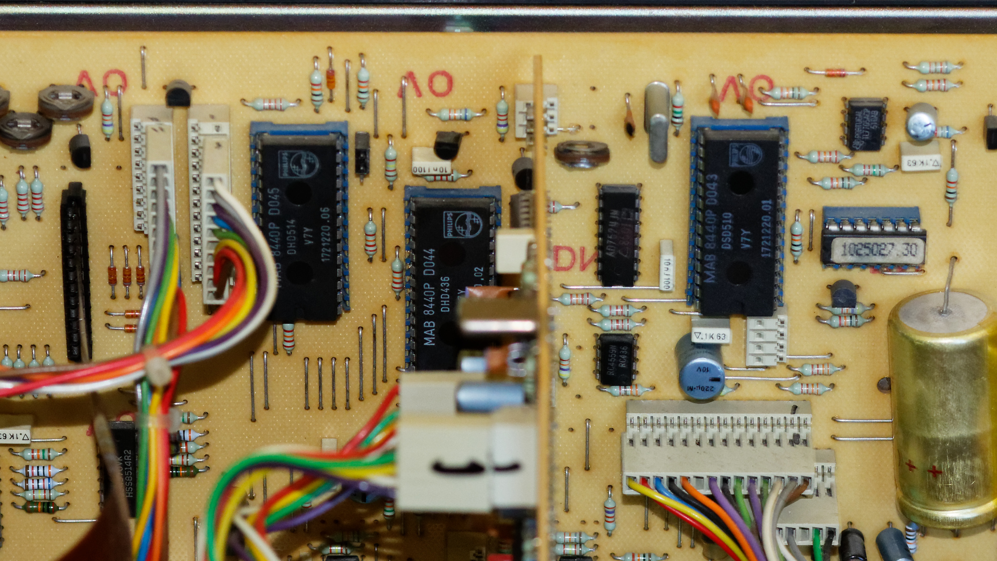 The three Philips MAB8440 microcontrollers of the Revox 215B cassette deck, and a proprietary EEPROM with a version tag on the right. It's all synced to a common 6MHz quartz, and connected with an I2C bus, which was sort of novely then (1985).